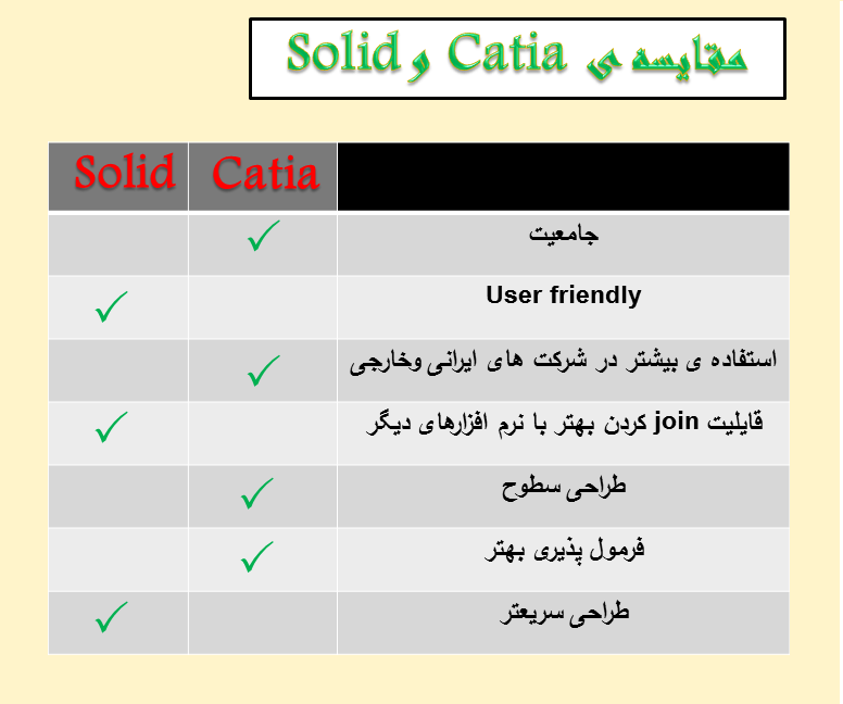 dfklalkfalkd